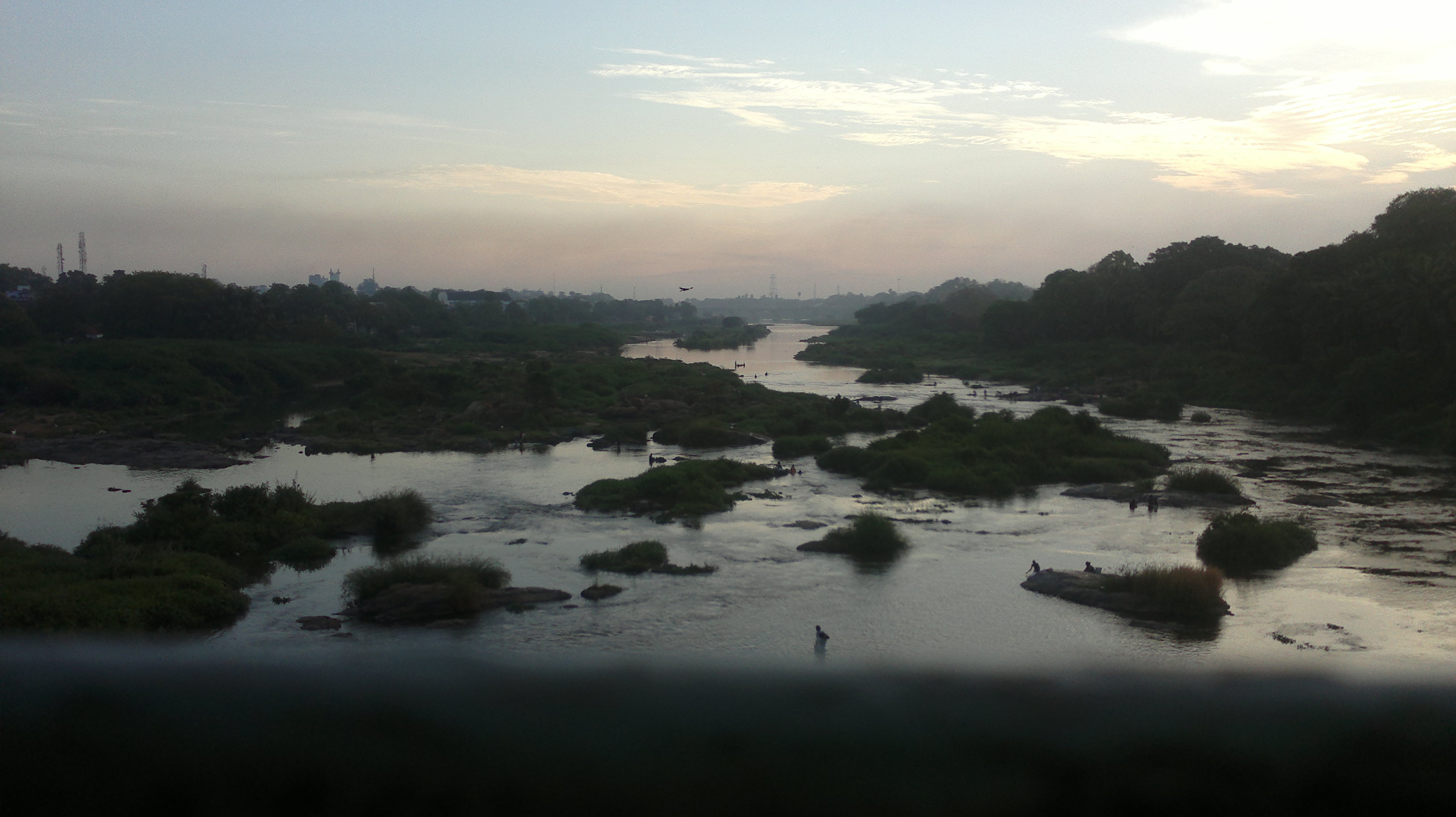 தாமிரபரணி நதி